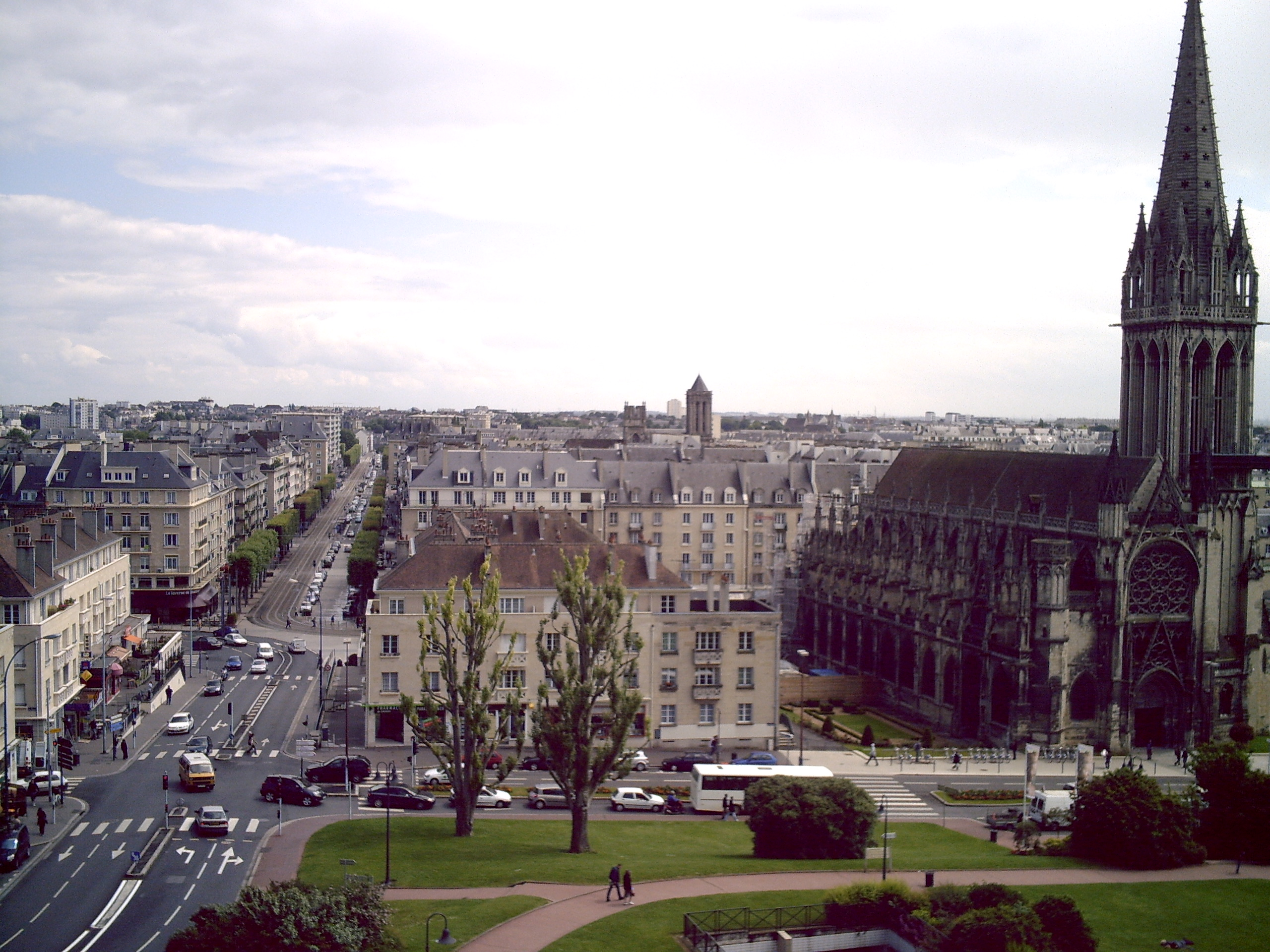 Caen